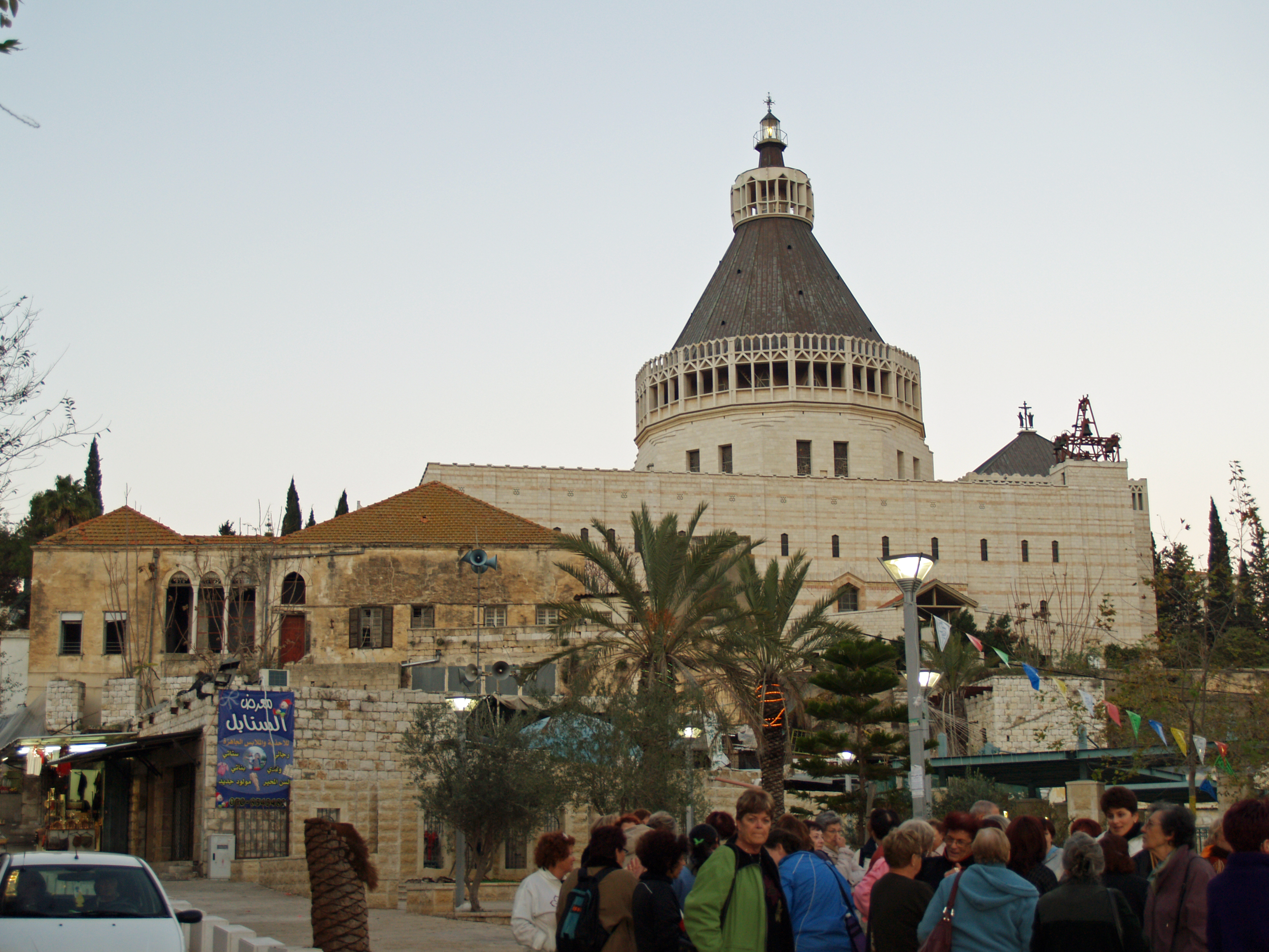 Church of the Annunciation